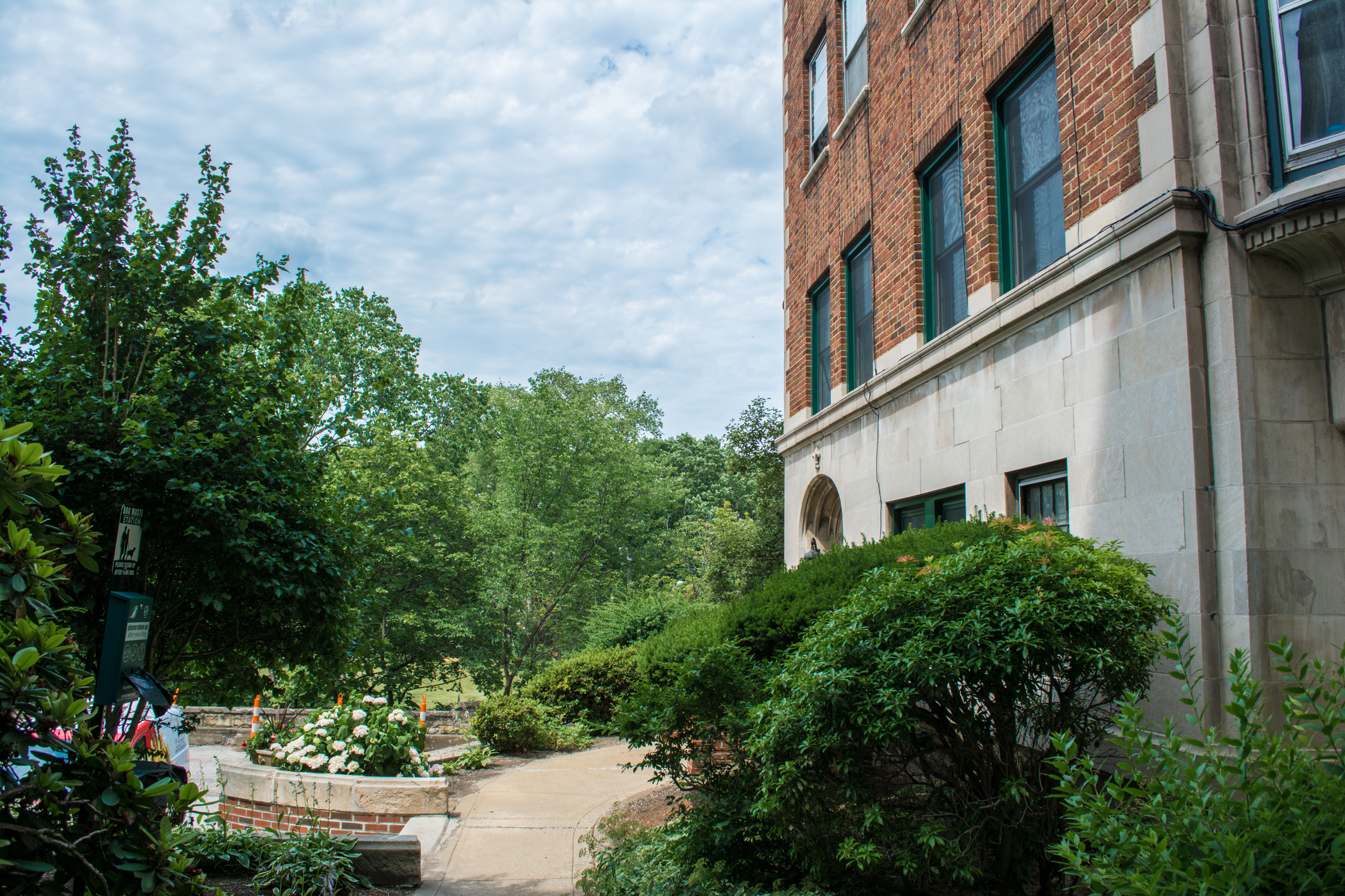 Looking north from 11440 Cedar Glen Parkway in Cleveland, Ohio, in the United States. This building is part of the interconnected Cedar Glen Apartments. Owned and designed by prominent local architect Samuel E. Weis (a.k.a. Samuel E. White), they were completed in 1927. The complex was added to the National Register of Historic Places on June 17, 1994.